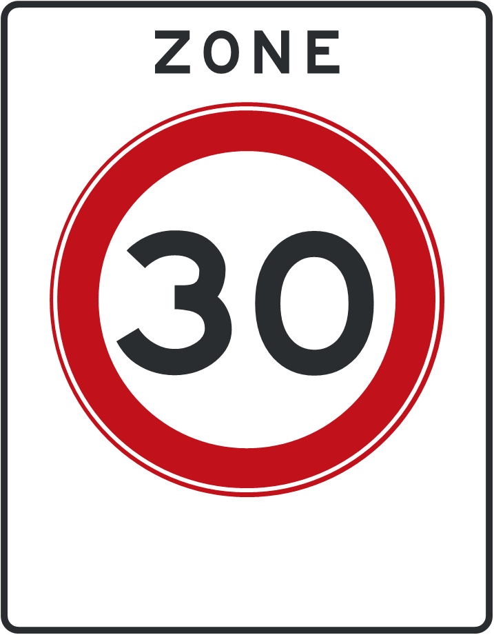 Dutch traffic sign A1, 30 kph, Zone Start